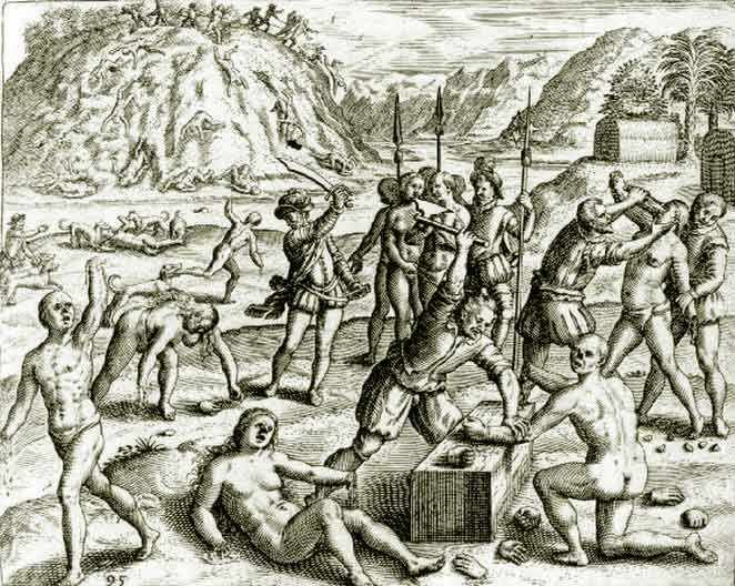 "They would cut an Indian's hands and leave them dangling by a shred of skin ... [and] they would test their swords and their manly strength on captured Indians and place bets on the slicing off of heads or cutting of bodies in half with one blow. ... [One] cruel captain traveled over many leagues, capturing all the Indians he could find. Since the Indians would not tell him who their new lord was, he cut off the hands of some and threw others to the dogs, and thus they were torn to pieces."